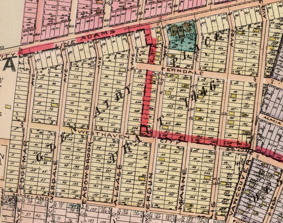 This is a 1921 tract map of the Glen Airy subdivision, Los Angeles, California, which is a section of the West Adams, neighborhood. This will be used in the Historic West Adams article. This is only a portion of a page from Plate 36, Los Angeles, California, of the G.W. Baist maps as set forth on the Internet at the David Rumsey Historical Map Collection. Other information This is only a part of the page from this book, which was copied and posted online by a reference source.